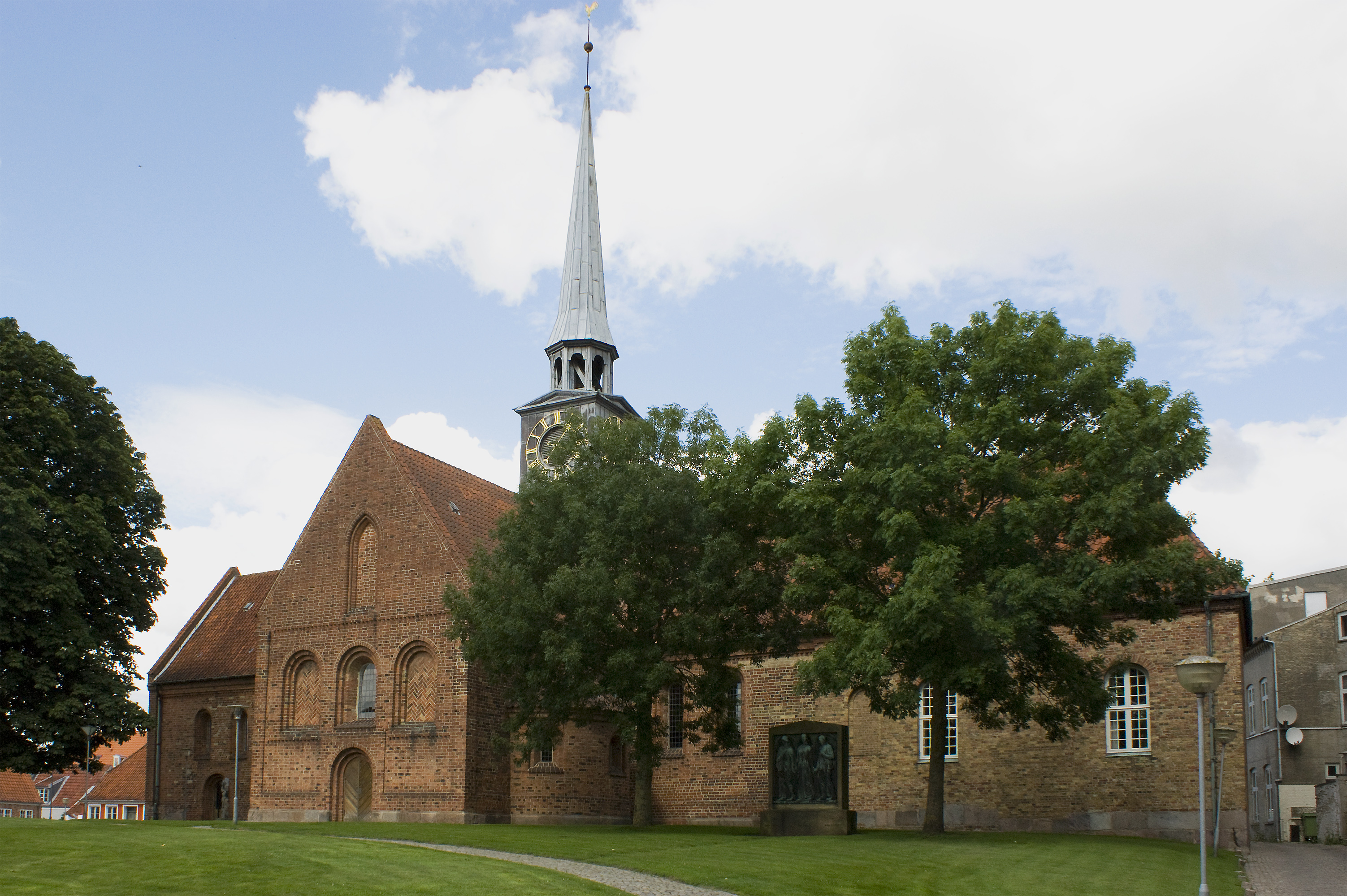 Nicolai Church in Aabenraa, Denmark